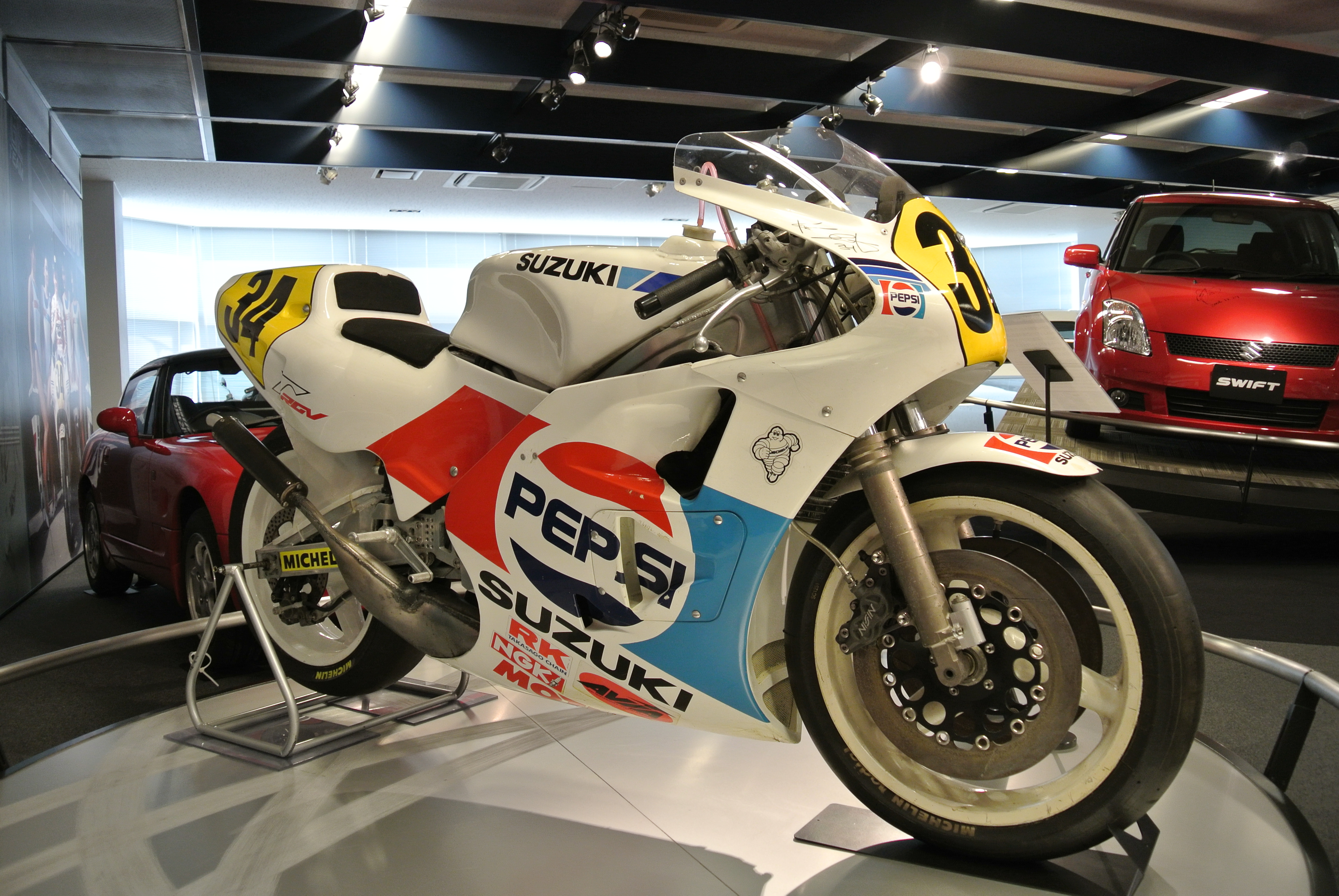 1988 RGV500Γ in the Suzuki History Museum.